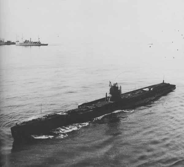 Ex-German U-boat U-117 [foreground], US Destroyer Barney (No. 149) and US Minesweeper Rail (No. 26) [background]. The U-117 was bombed on 21 June 1921 by Navy planes.